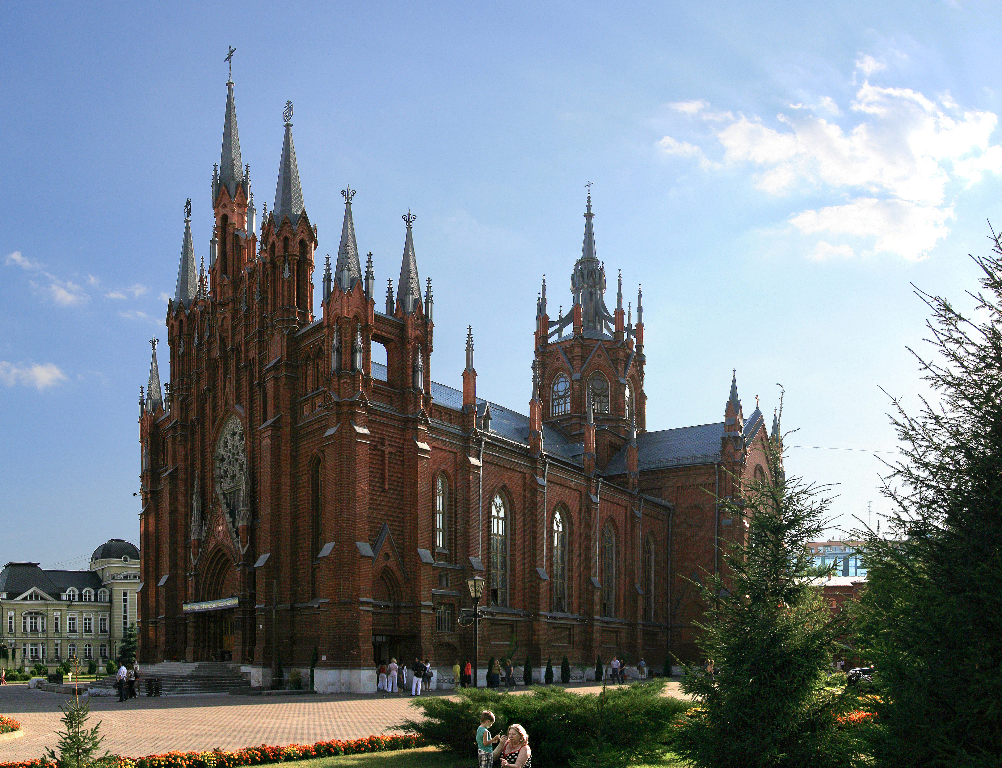 Cathedral of the Immaculate Conception, Moscow